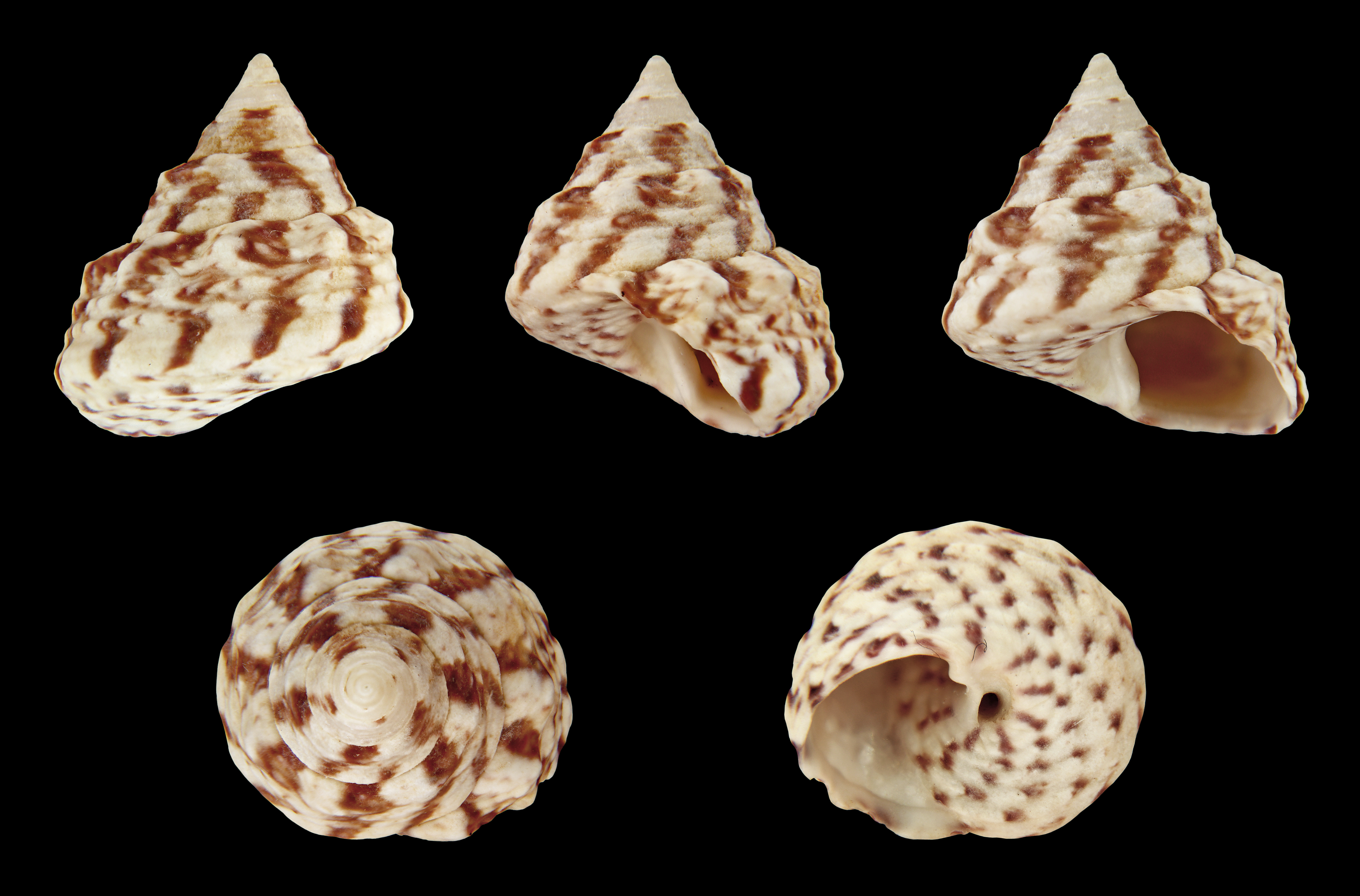 Red Sea Top Shell, juvenile, Diameter 1.3 cm; Originating from from the Red Sea, Gulf of Aqaba, Tabuk Region, Saudi Arabia; Shell of own collection, therefore not geocoded.